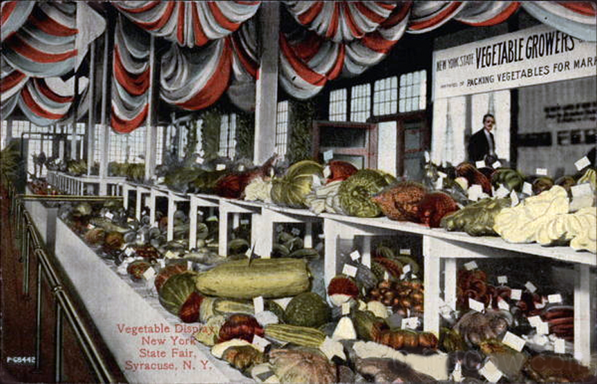 New York State Fair - Vegetable stand about 1900